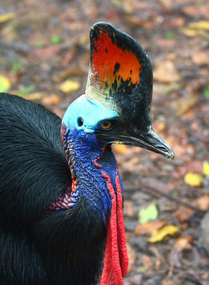 Thanks for duckduckgoose1 for telling me the name of this bird. Thanks for Clara Rose for giving more detail explanation about this bird.